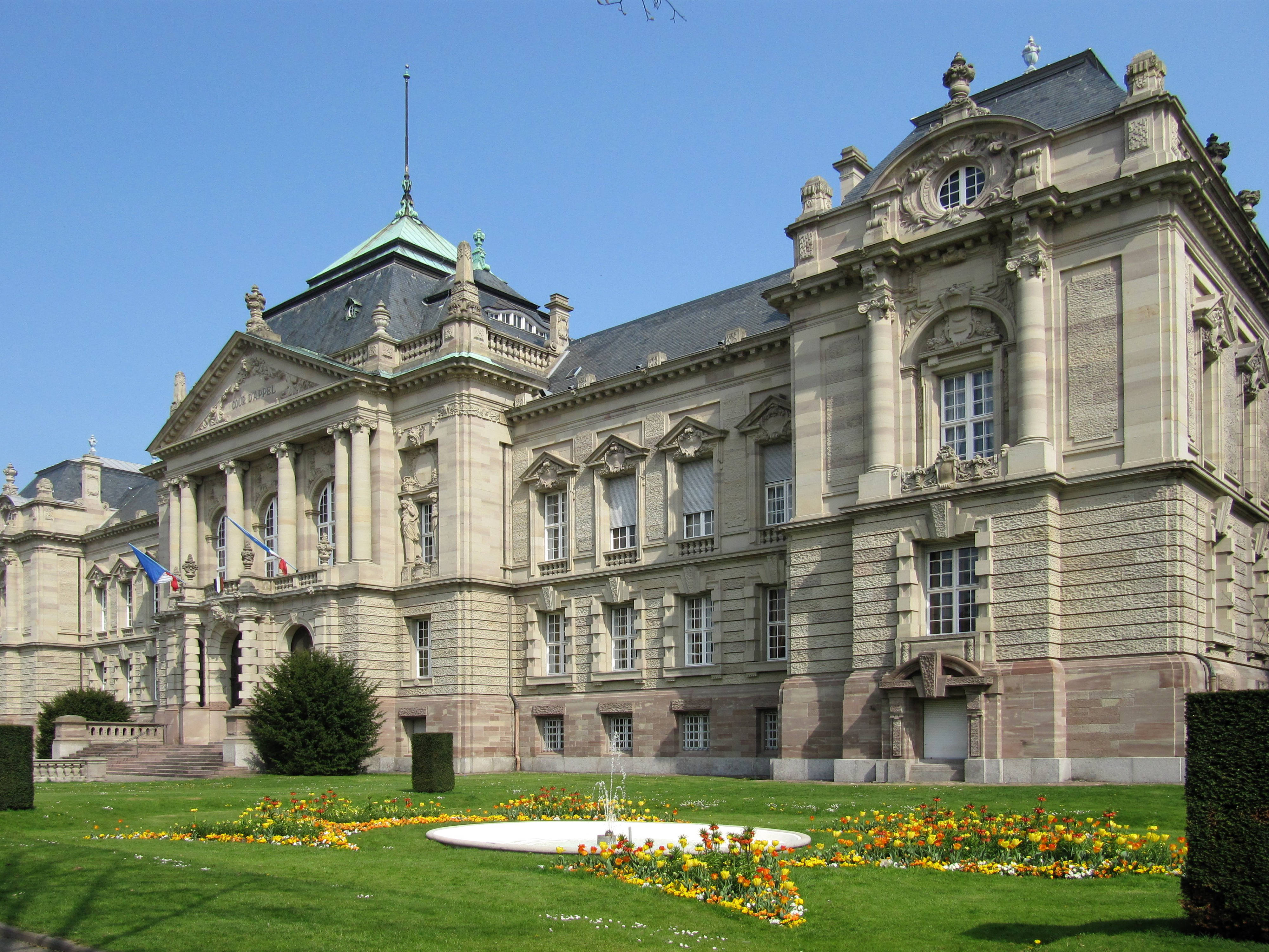 Court of appeal in 9 avenue Raymond Poincaré in Colmar (Haut-Rhin, France). .